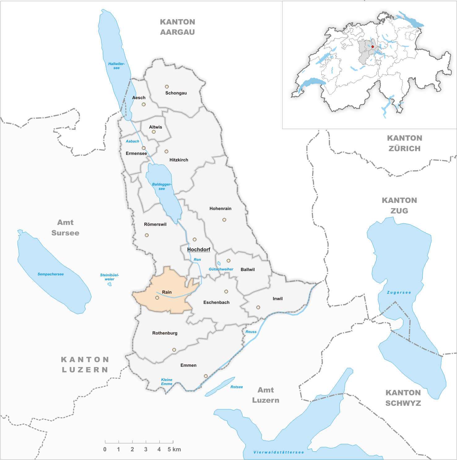 Municipality Rain